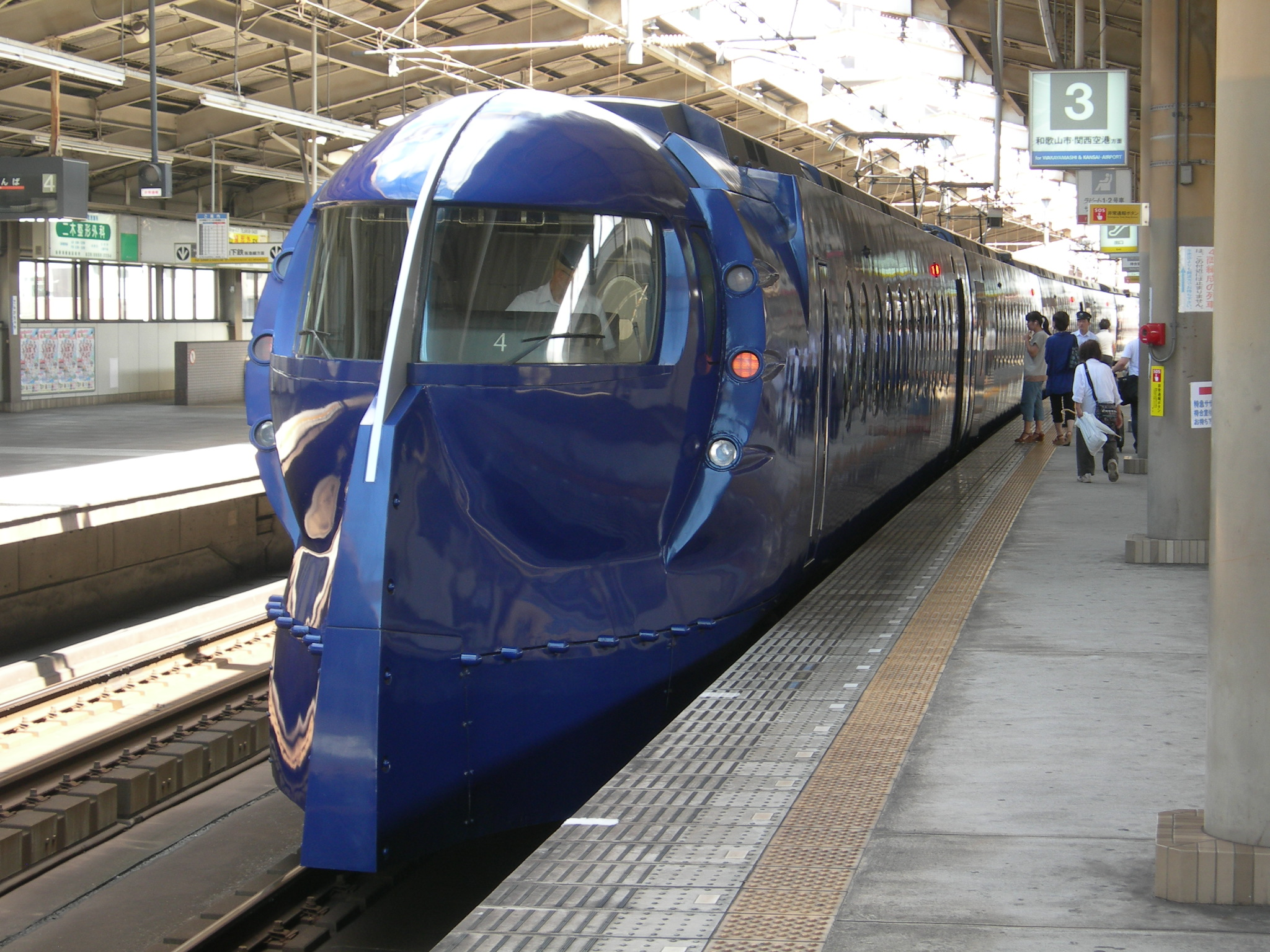 Nankai 50000 series Rapi:t. Shooting at the Tengachaya Station.